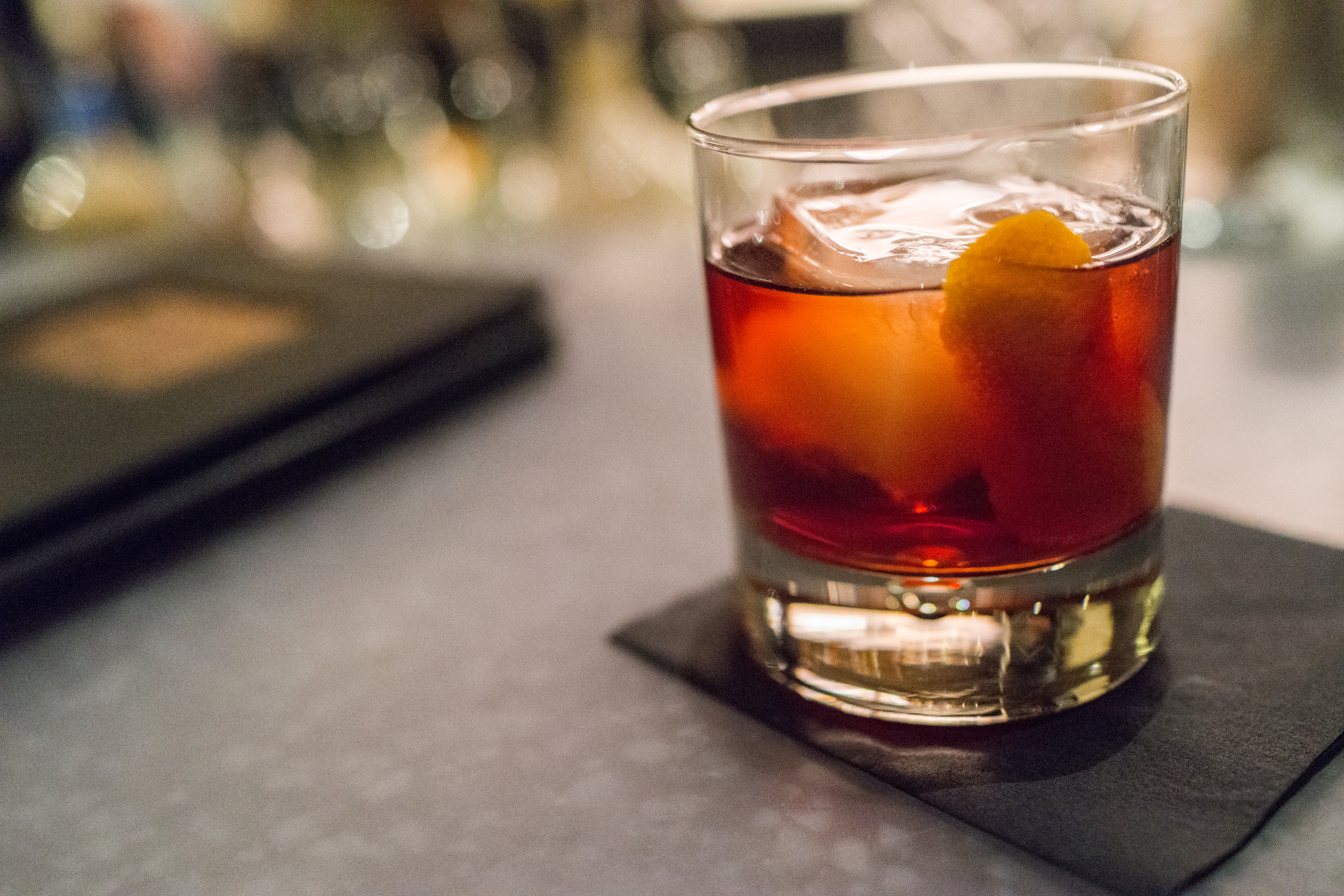 Boulevardier